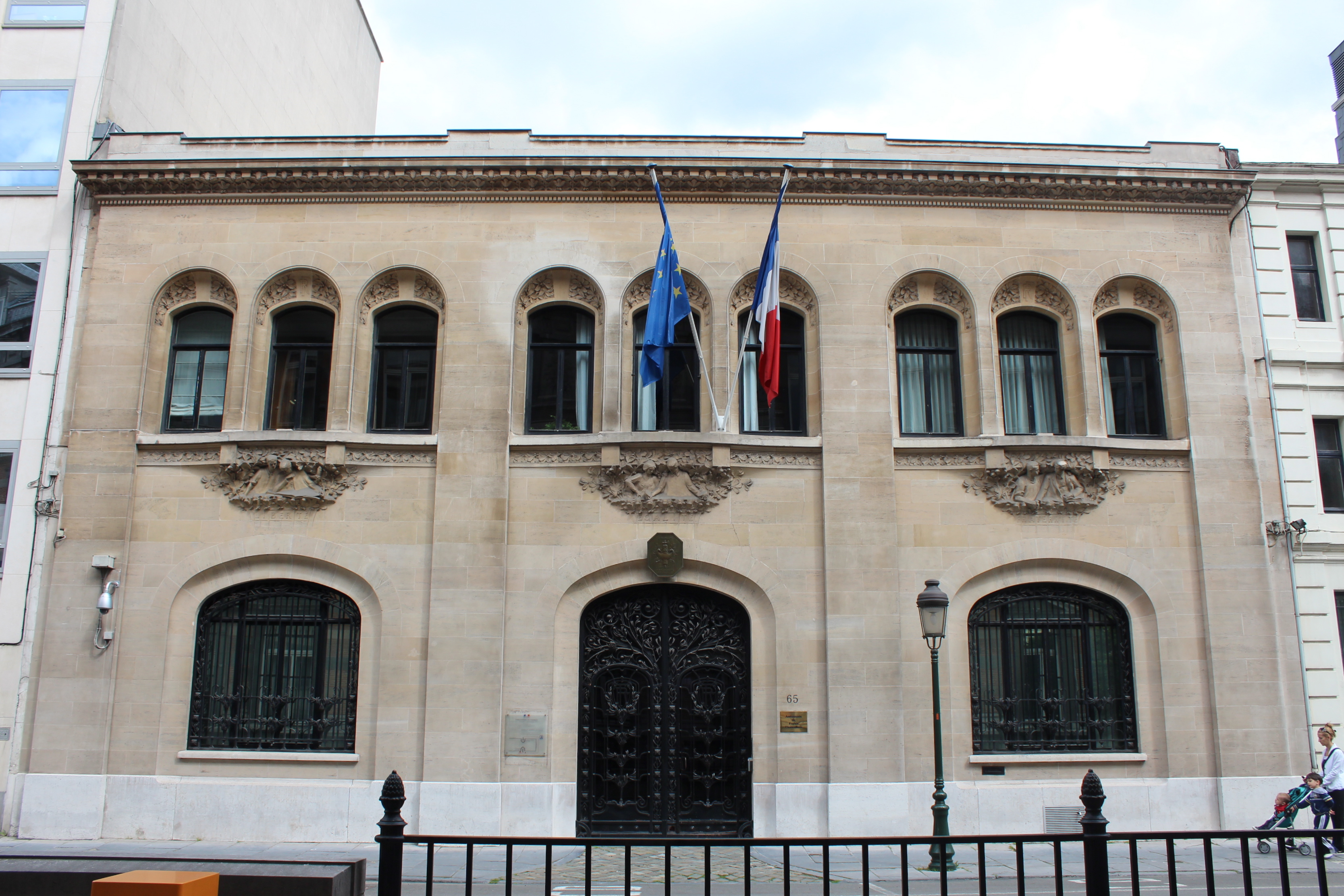 rue Ducale 65 Hertogstraat, Brussels. French Embassy.